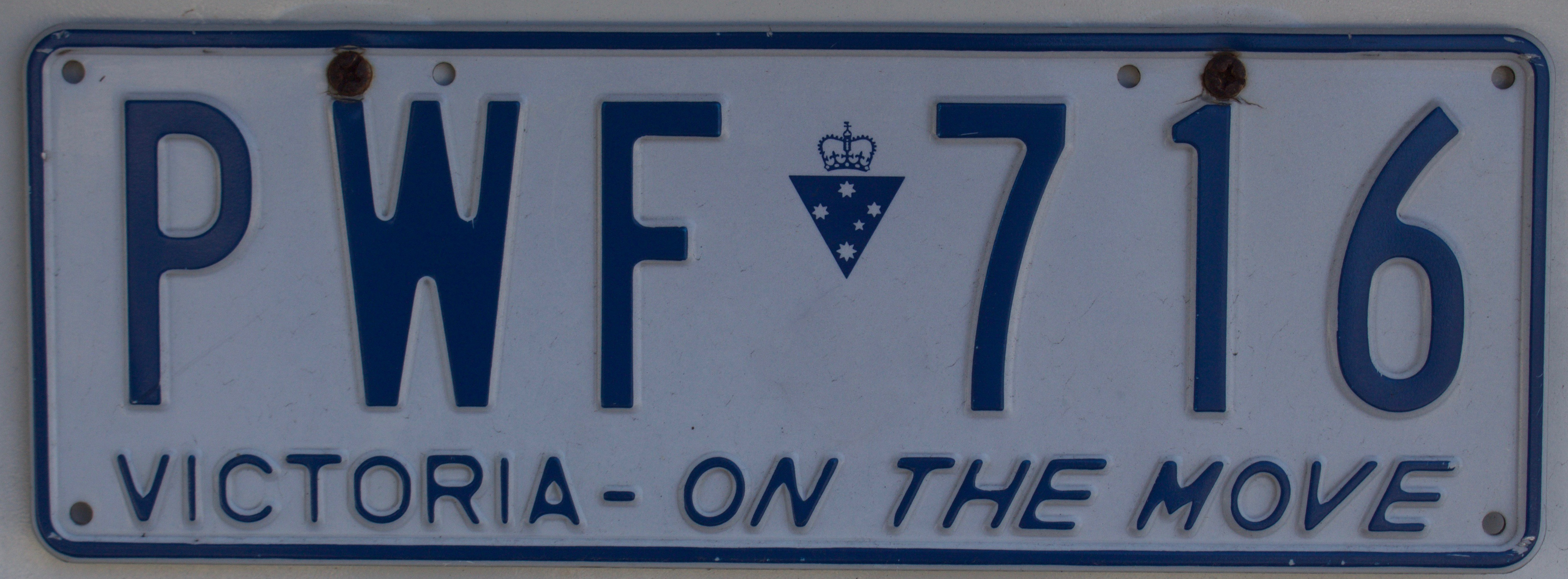 Vehicle registration plate of Victoria, general size, PWF-716, On The Move